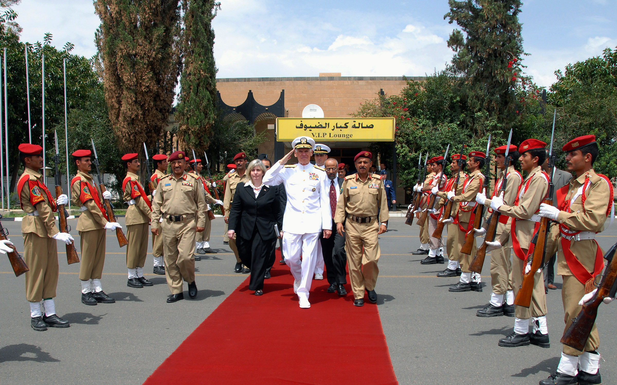 SANA’A, Yemen (July 18, 2007) - Upon departure, Adm. William J. Fallon, commander of U.S. Central Command, walks through the Yemen Police Academy Honor Guard at the airport. Fallon is visiting countries within the U.S. Central Command area of responsibility to build upon diplomatic relations and expand military cooperation throughout the Middle East, Central Asia and Horn of Africa. U.S. Navy photo by Mass Communication Specialist 2nd Class Alisha M. Frederick (RELEASED)